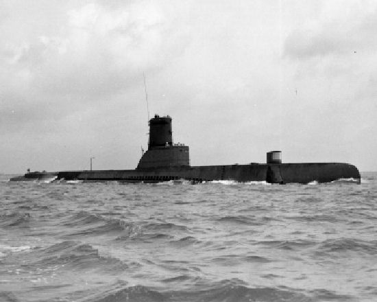 Sea Leopard (SS-483) underway on 30 May 1950. During February and March 1950, the Sea Leopard participated in maneuvers in the Caribbean.From August through November, she joined the 6th Fleet in the Mediterranean, visiting ports of Italy, France, and Sicily, before returning home.